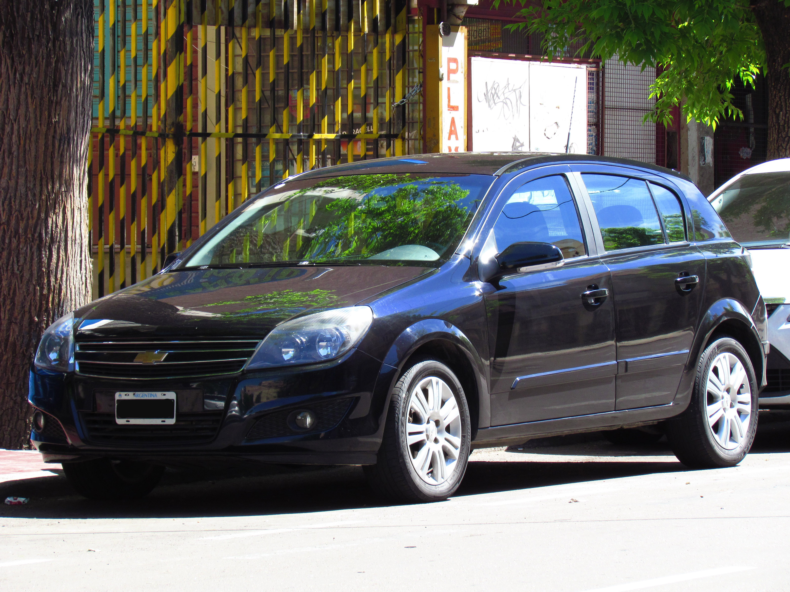 Brazilian-made Astra, called Vectra in some Southamerican countries